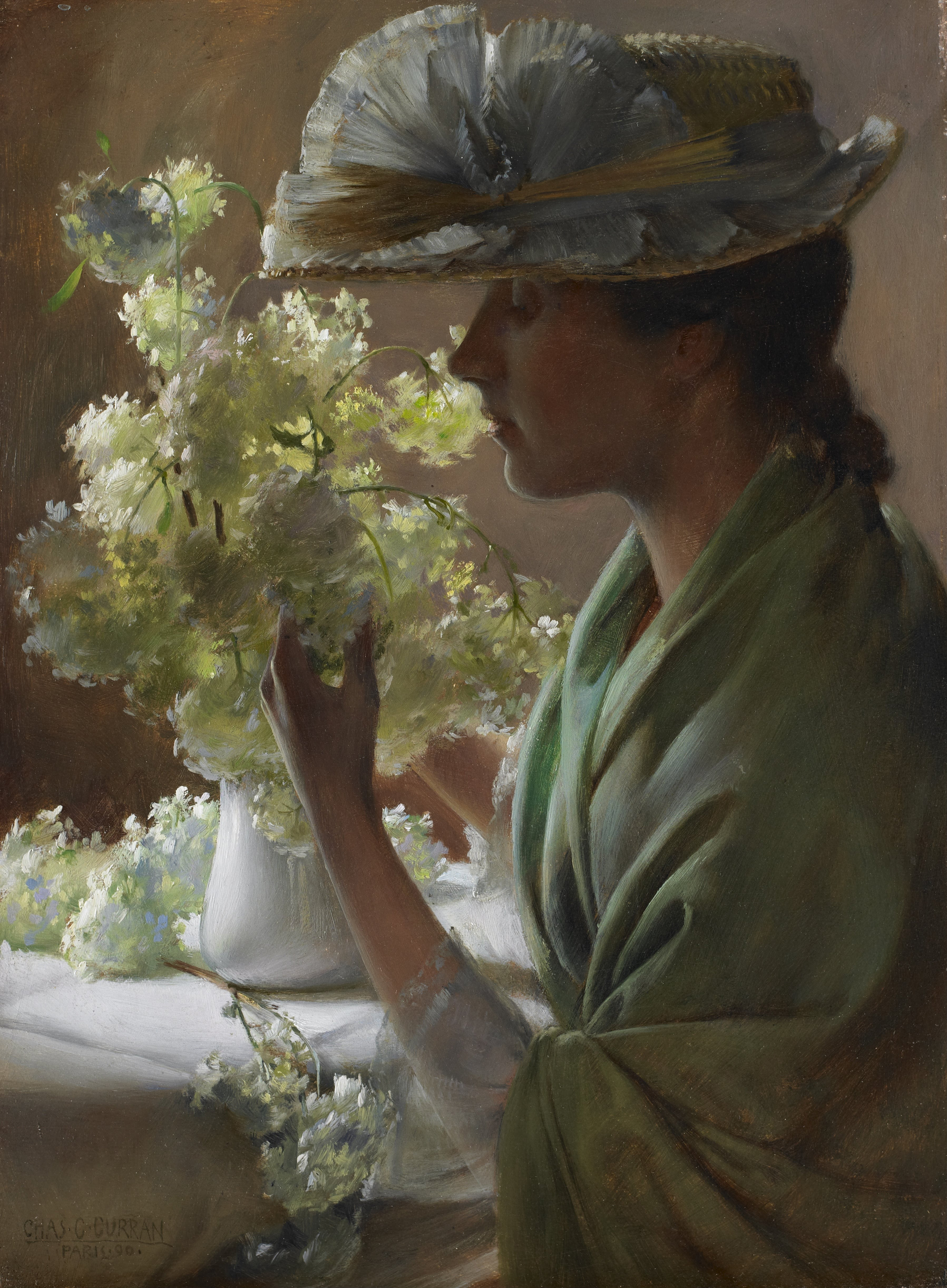 Lady with a Bouquet (Snowballs) - Charles Courtney Curran - Google Cultural Institute. Birmingham Museum of Art. w8.88 x h12.81 IN. Oil on wood panel.